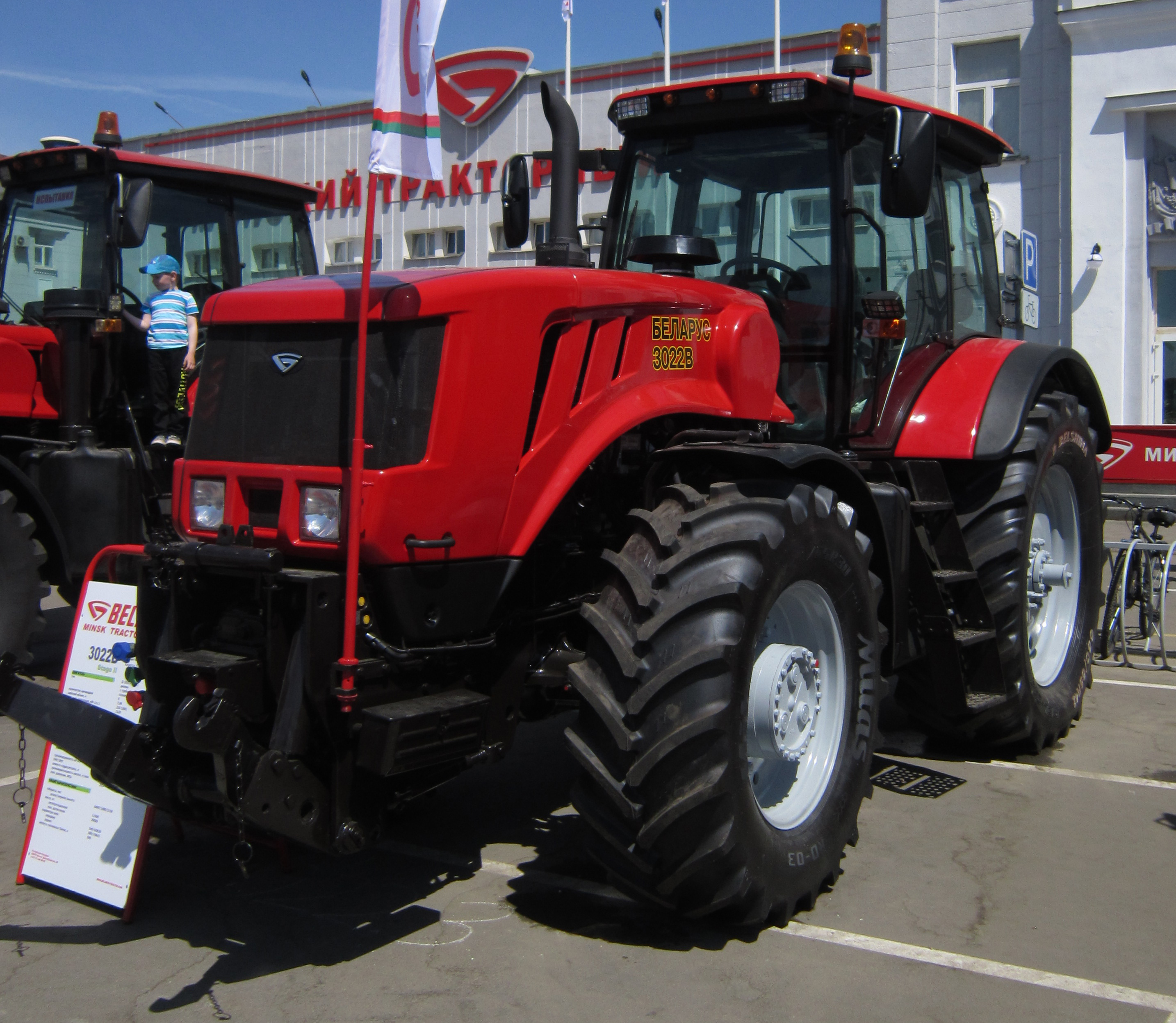 Minsk Tractor Works Open Day 2017. Tractor Belarus (MTZ) 3022V